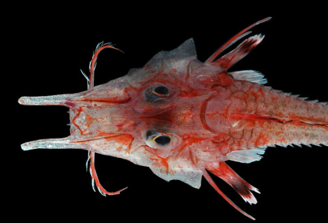 Peristedion greyae